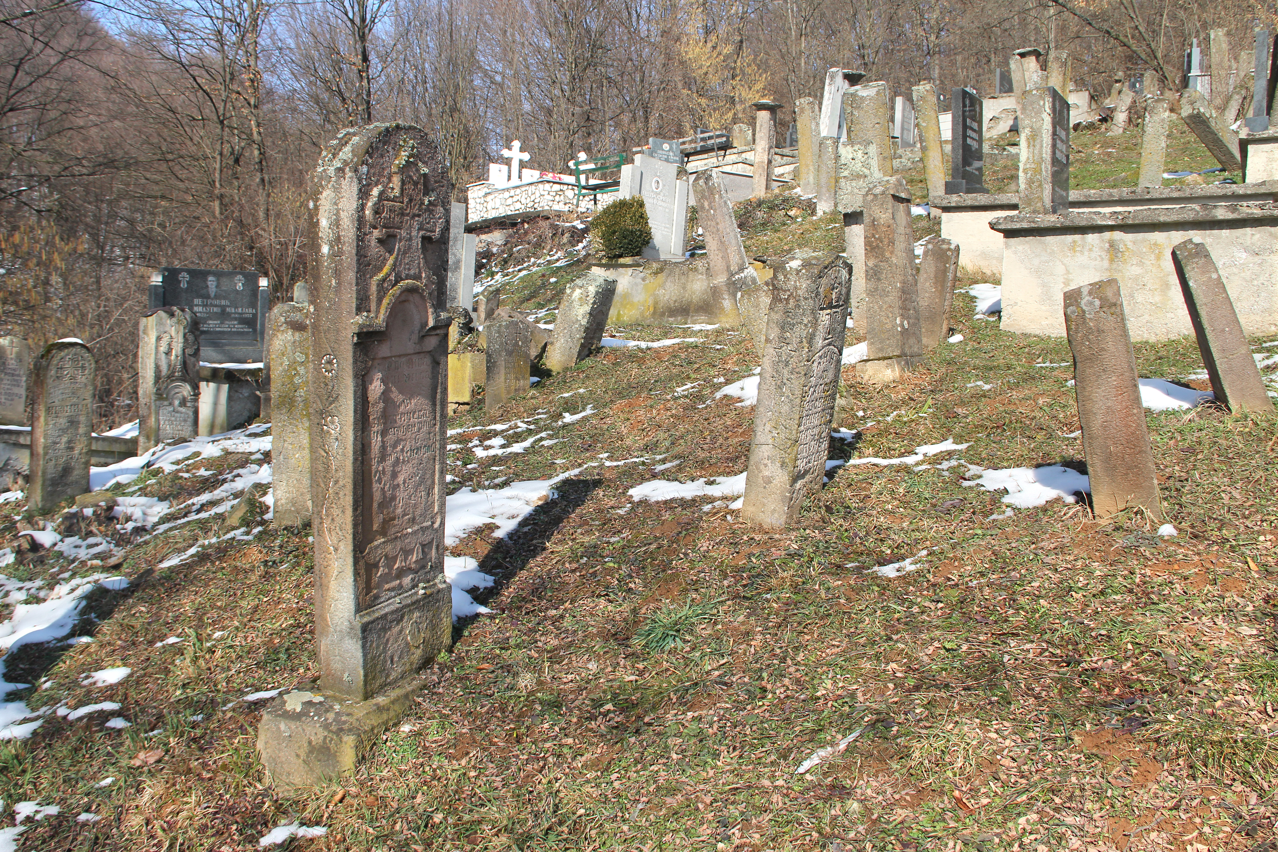 Old gravestones at the cementery in the village of Klaticevo (the municipality of Gornji Milanovac), Serbia.